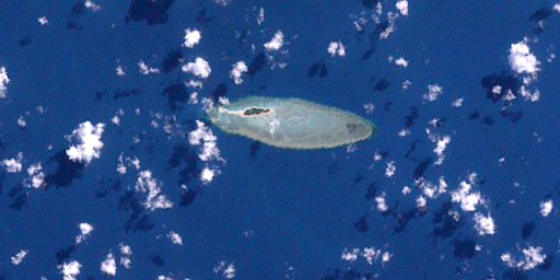 Poll Islet, South of the Three Sister Islands, Torres Strait Islands, Queensland, Australia